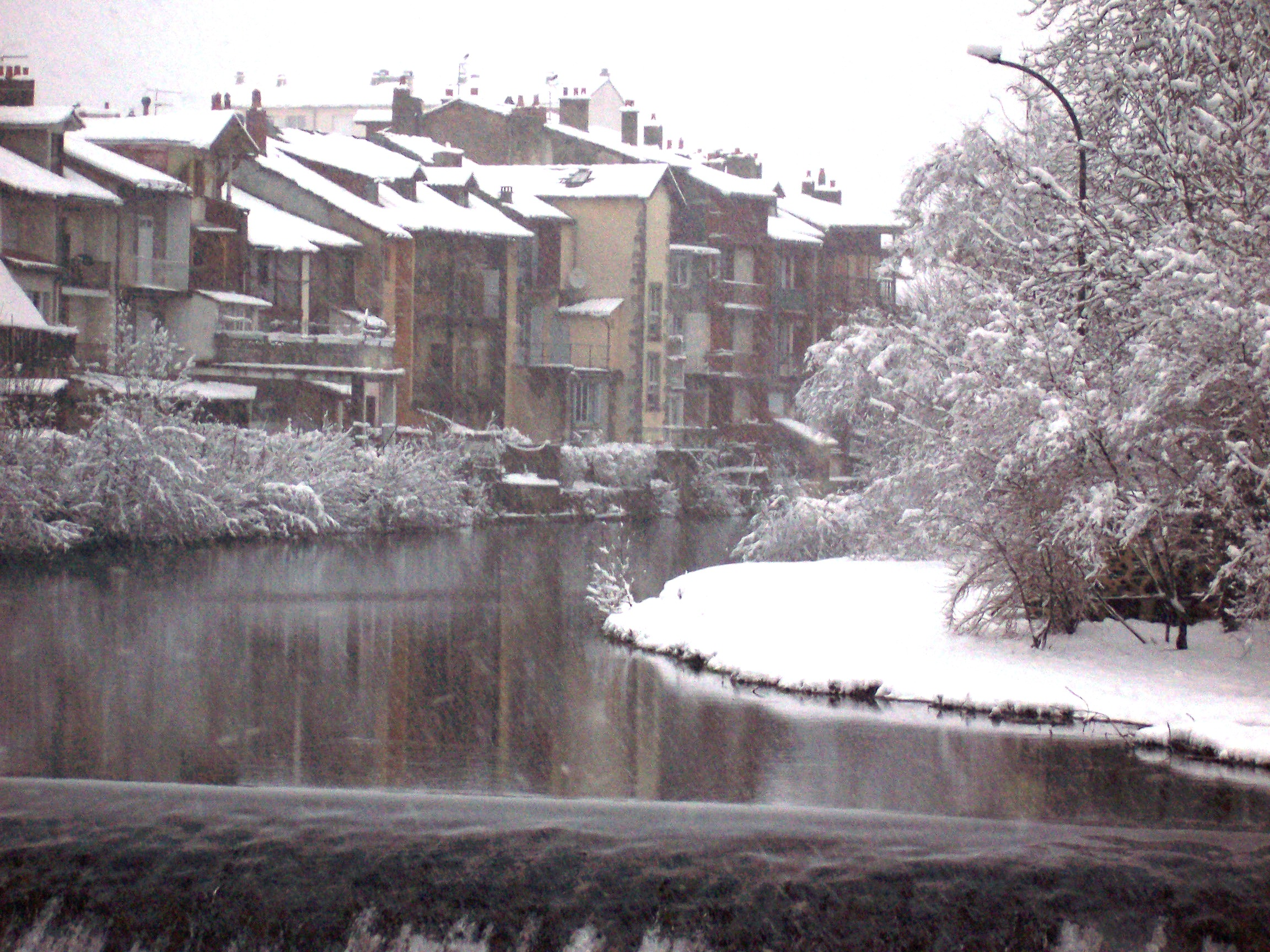 River Jordanne in the center of Aurillac, Cantal, France.